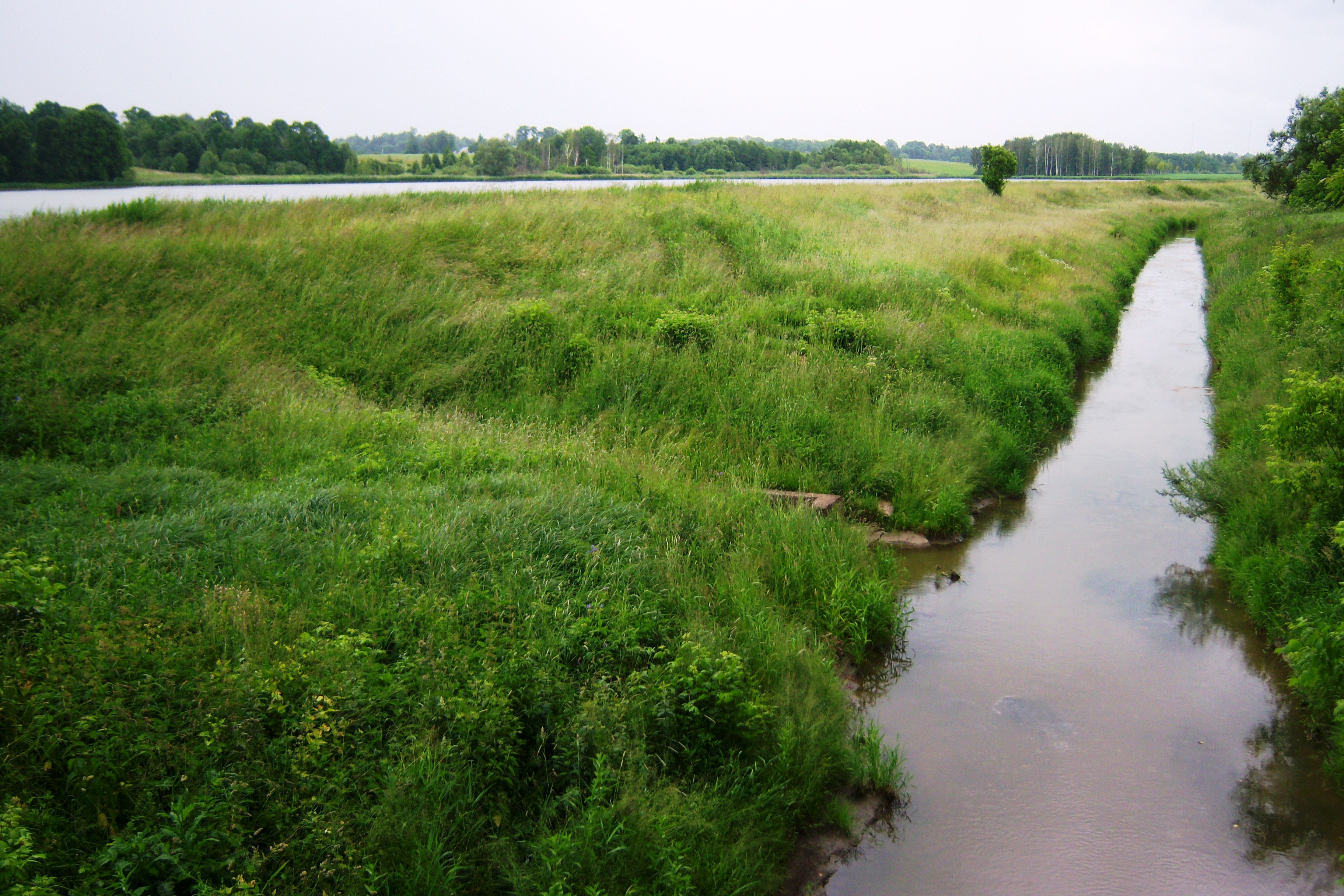 Šventupė River by Linksmadvaris ponds, Kaunas district. Lithuania